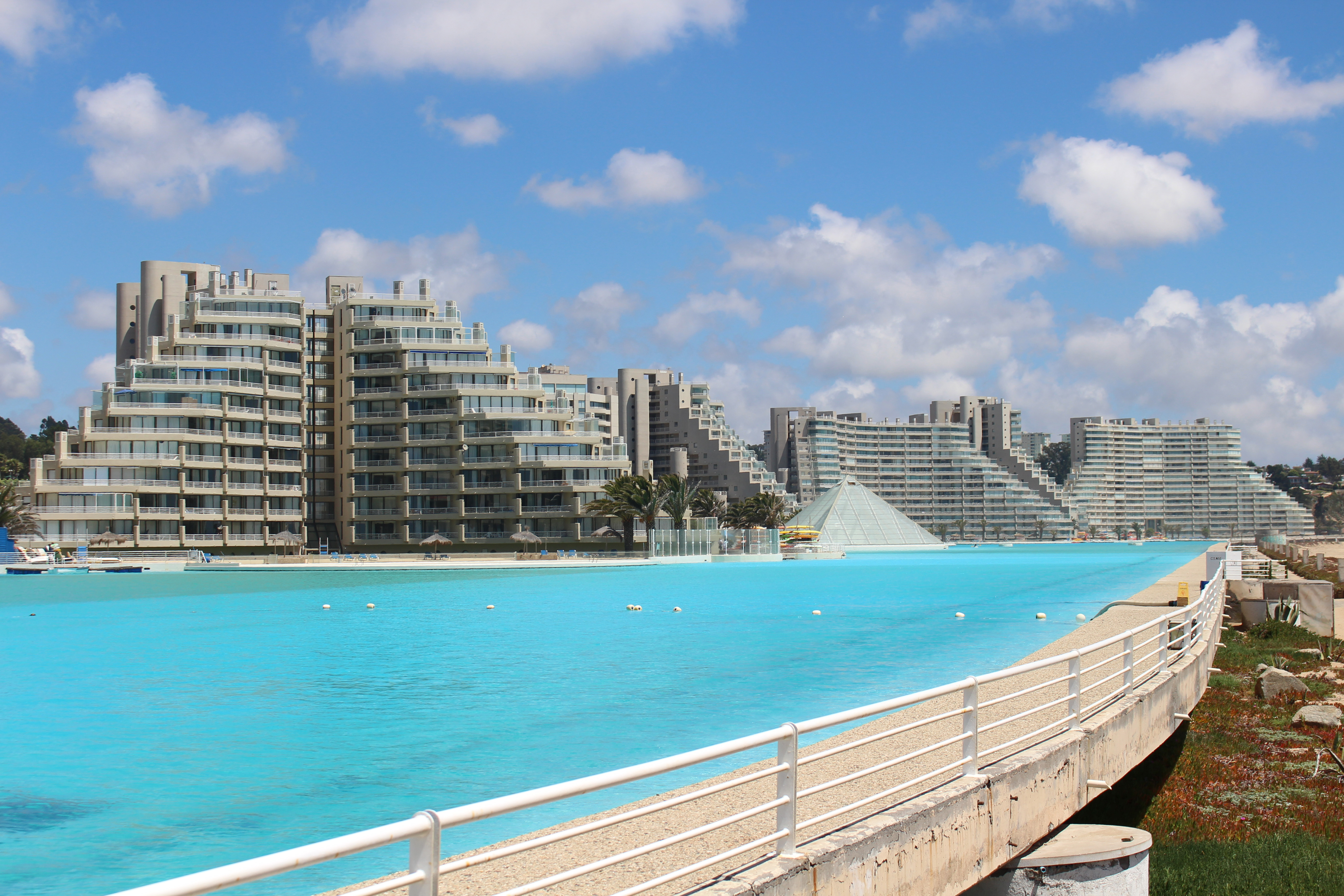 The swimming pool at the San Alfonso del Mar resort in Algarrobo, Chile. Photographed by user Coolcaesar on November 26, 2016.